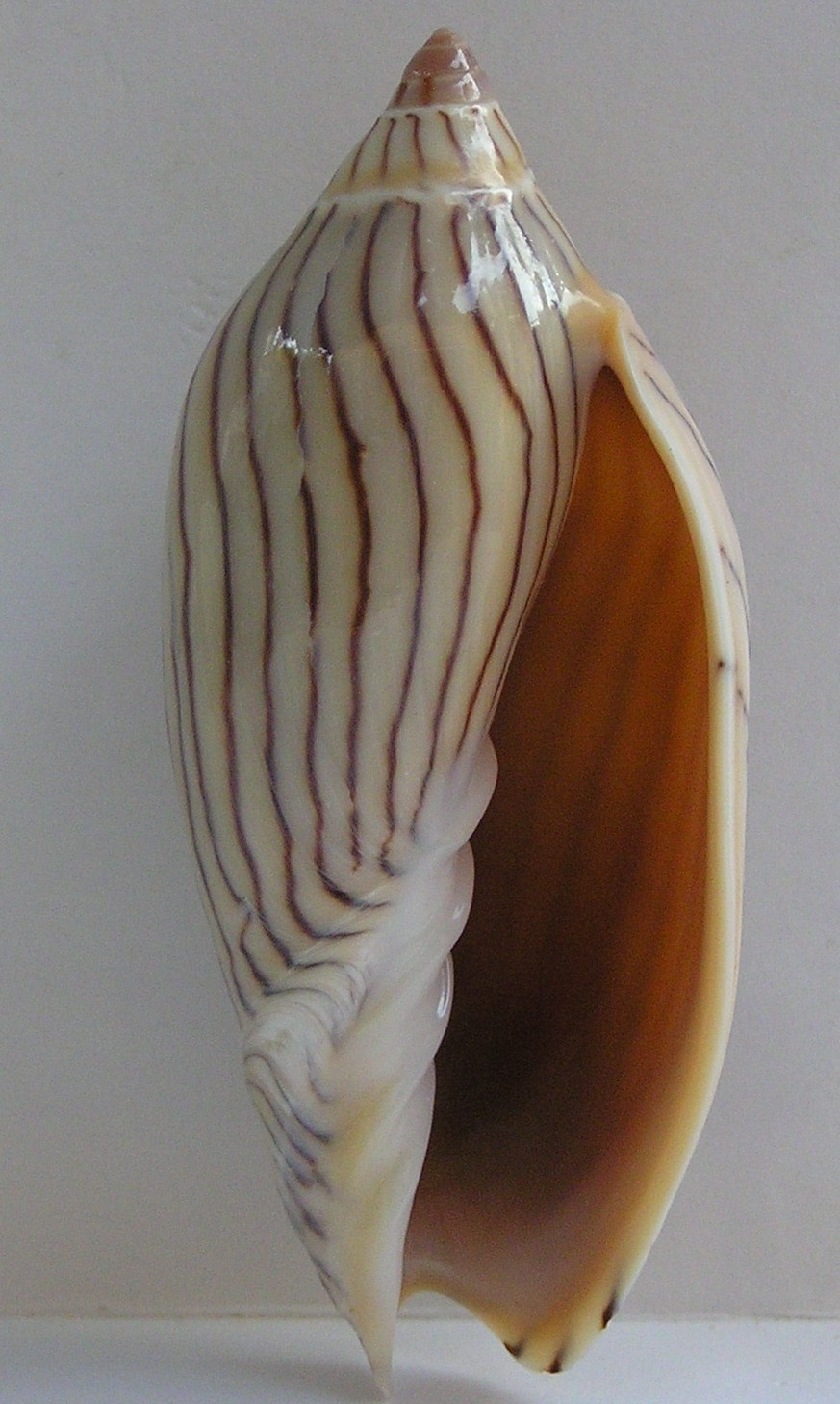 Amoria ellioti (G.B. Sowerby II, 1864); family Volutidae; Australia